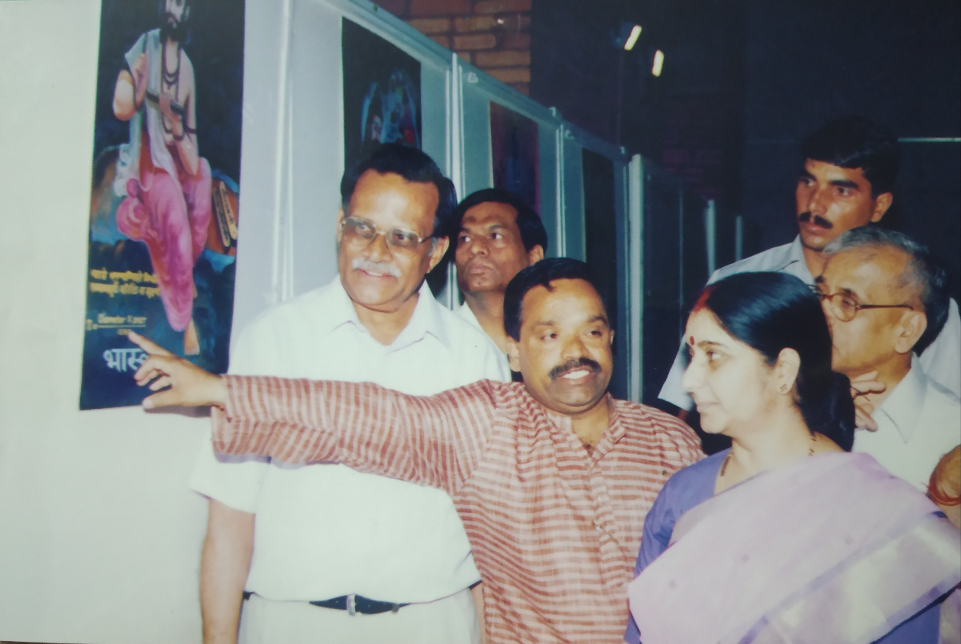 Sushma swaraj visiting Satyanarayana's paintings